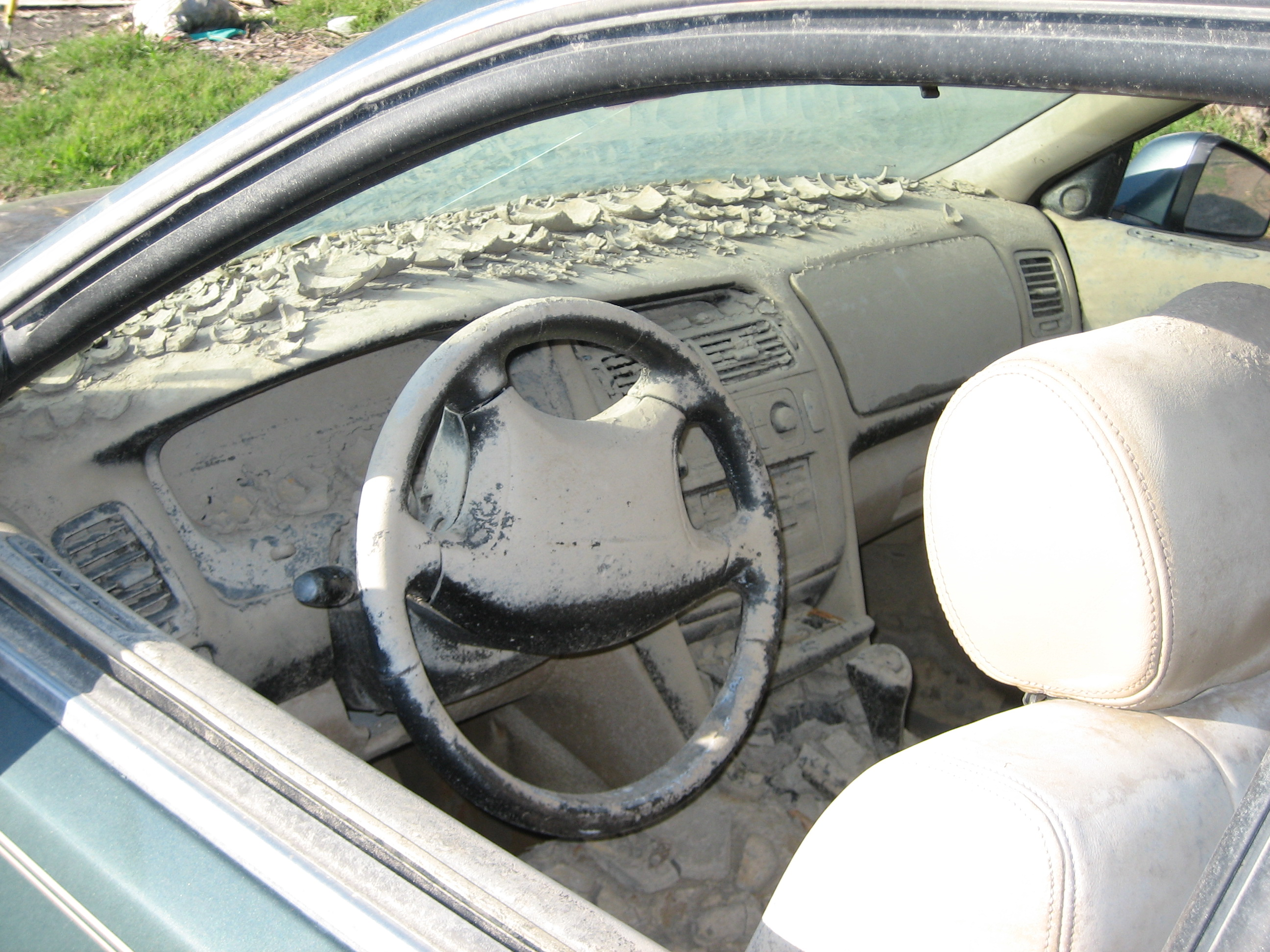 Levee failure aftermath in the Lower 9th Ward of New Orleans. Dashboard of Mitsubishi car, formerly submerged in flood waters, with covering of flood silt and clay. The clay-rich sediment forms typical „shards“ on top of the dashboard after completely drying up. The 9th ward remained largely uninhabitable even months after the flood.